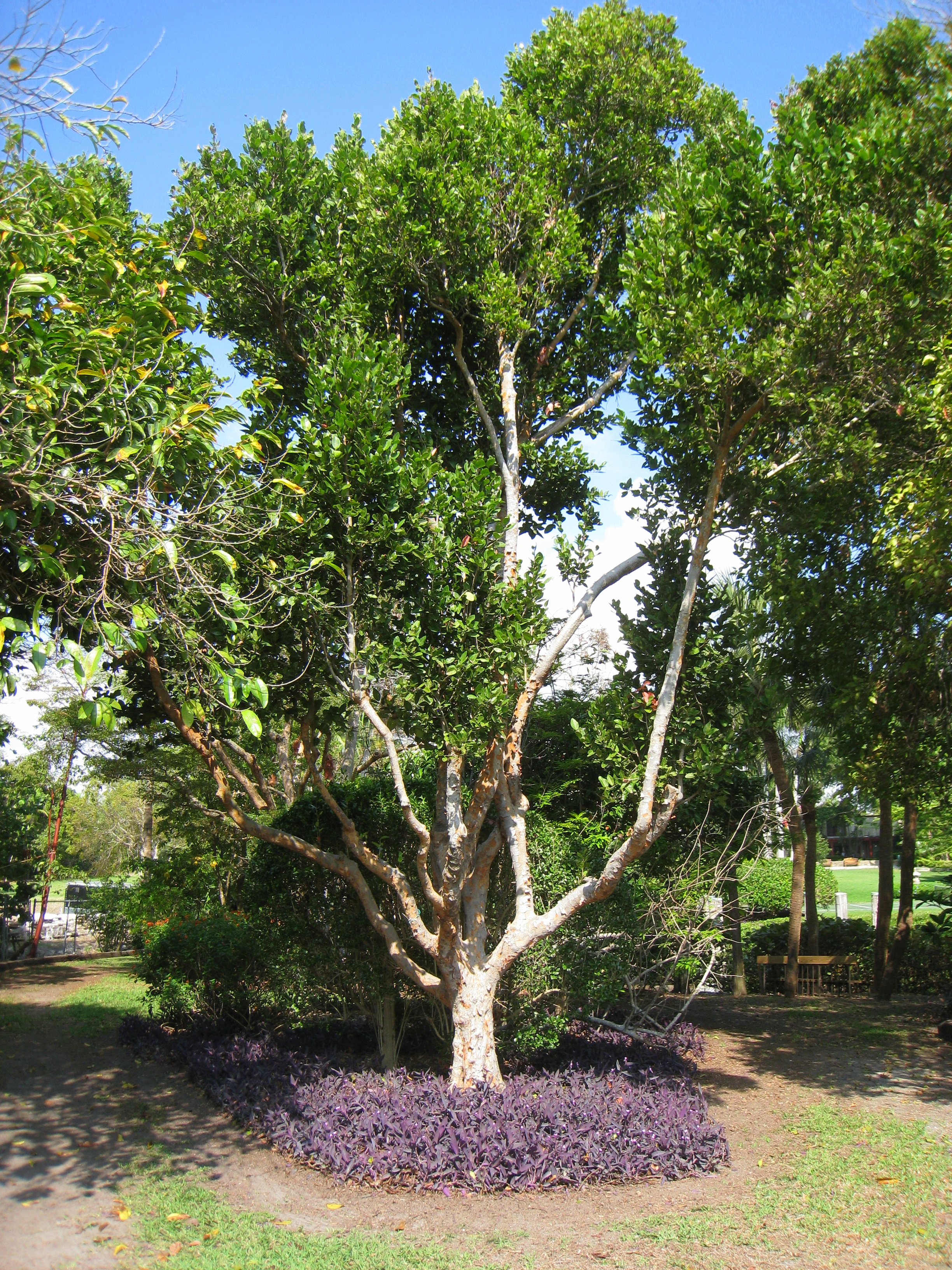 Coccoloba diversifolia - The Kampong, Coconut Grove, Florida, USA.